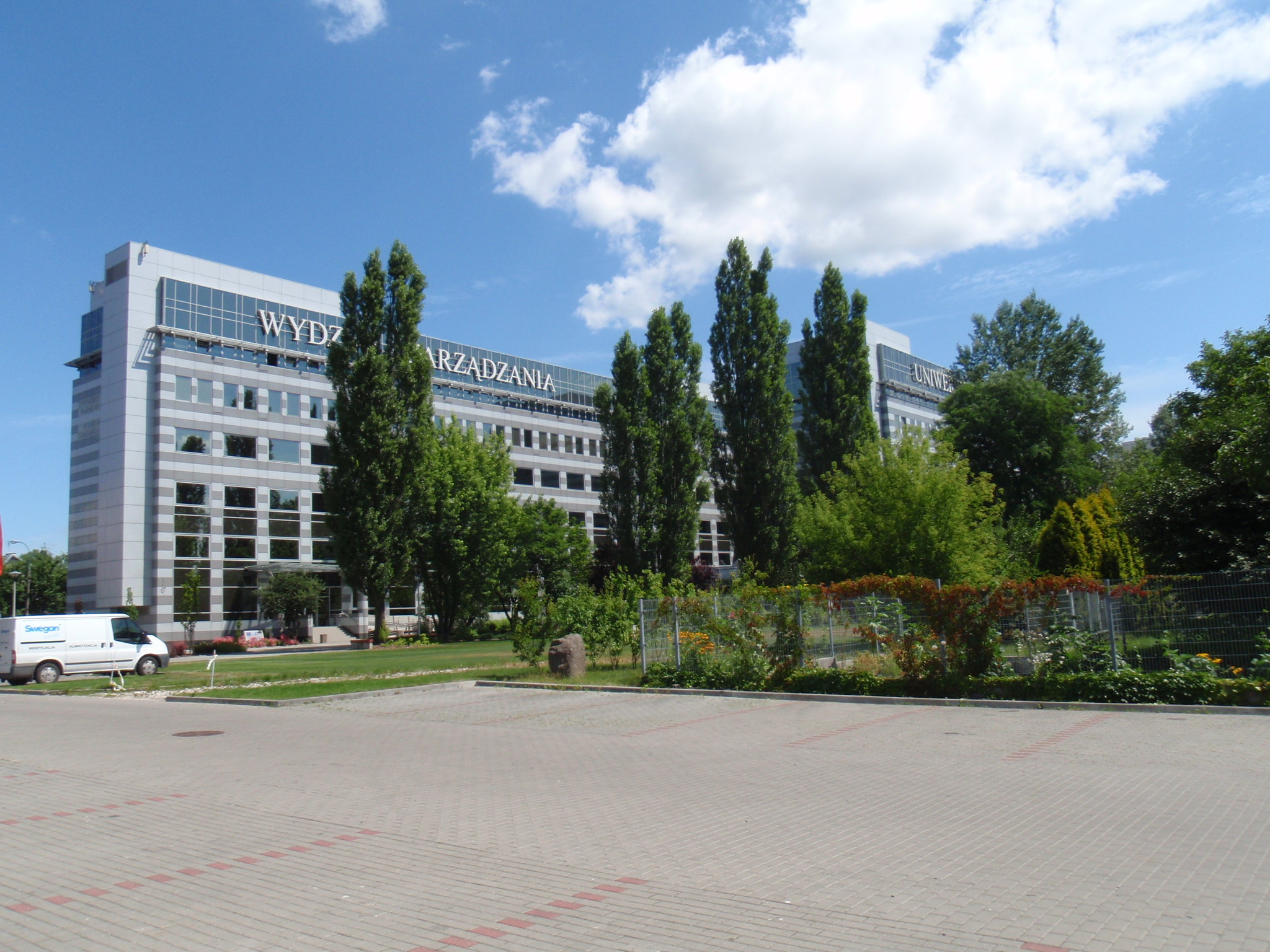 Building of Faculty of Management of Warsaw University